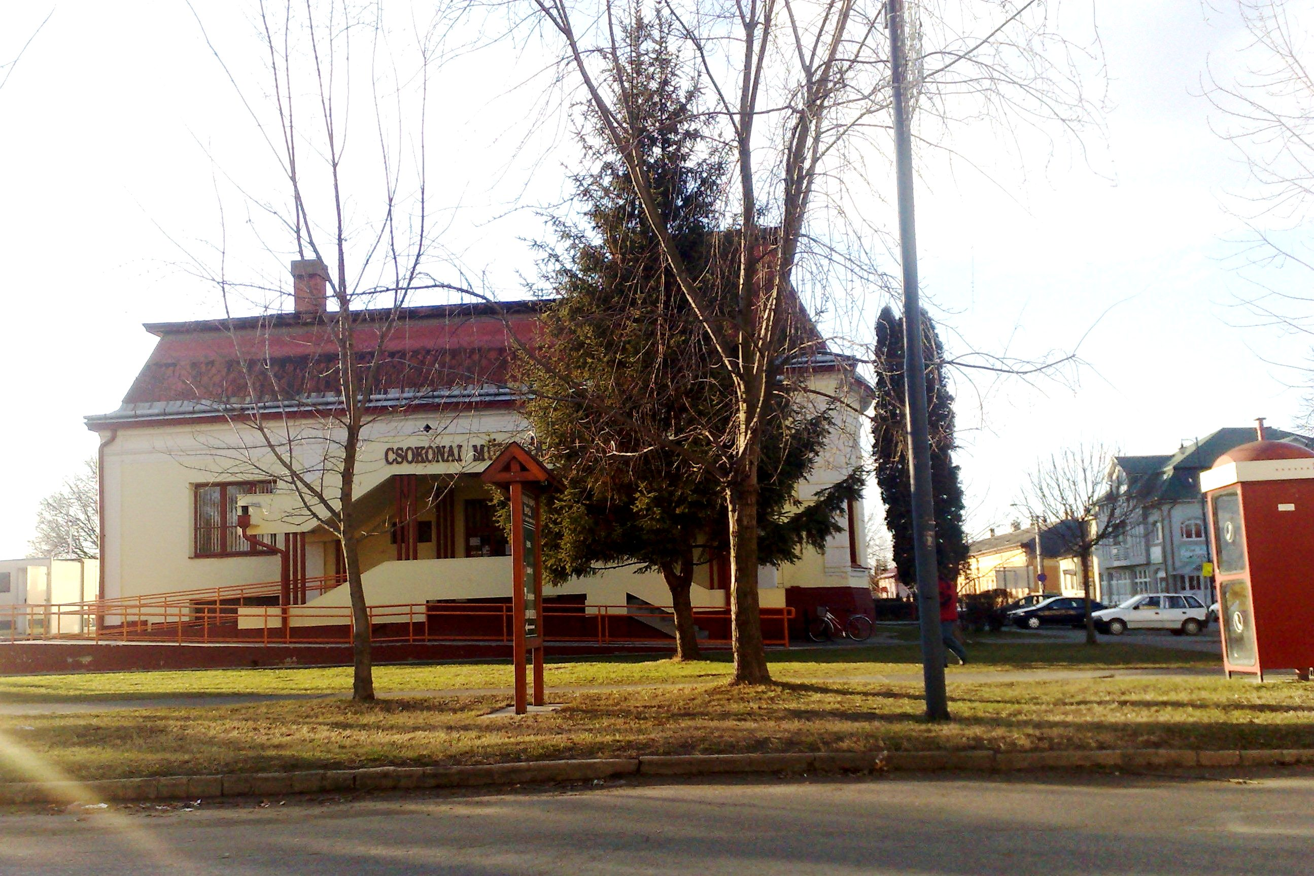 Hajdúhadház